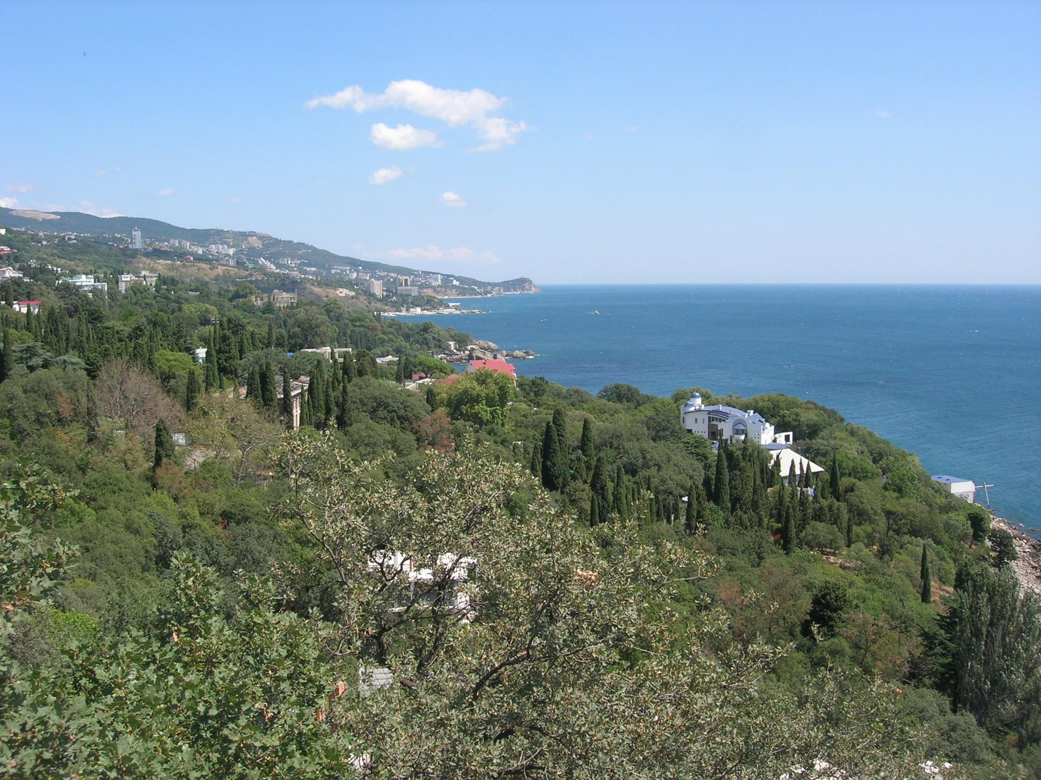 The southern coast of the Crimea. Alupka